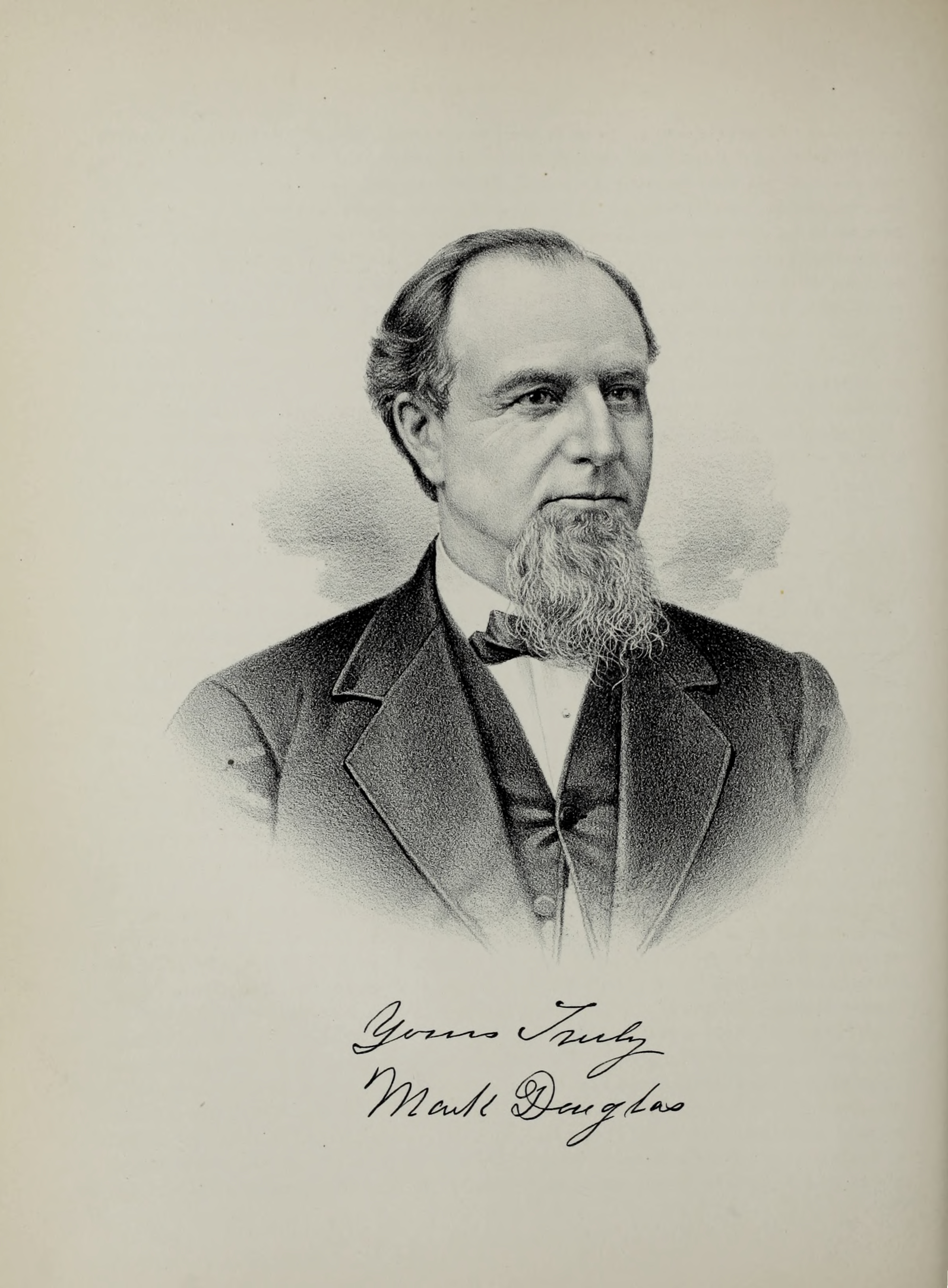 Portrait of Mark Douglas (1829–1900), Scottish-born businessman and politician of Wisconsin